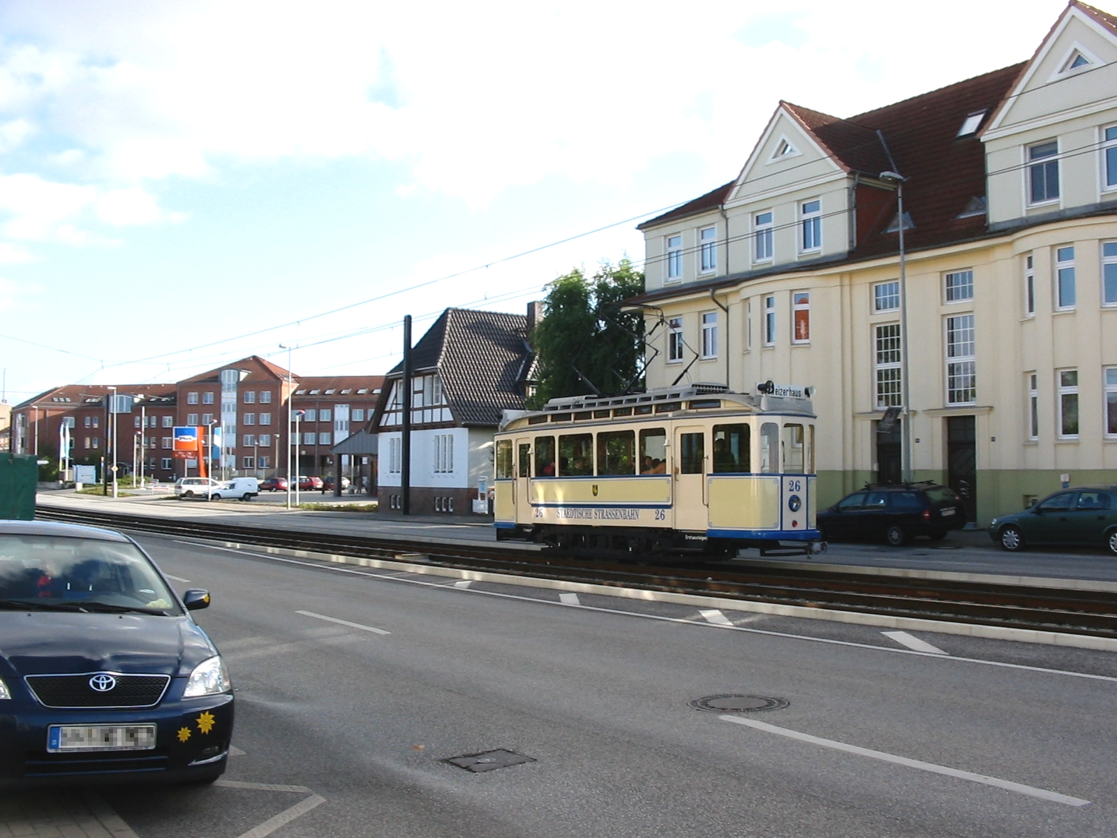 traditional tram No. 26 type "Wismar" (built 1926) in Schwerin (Germany) on its way to borough Lankow